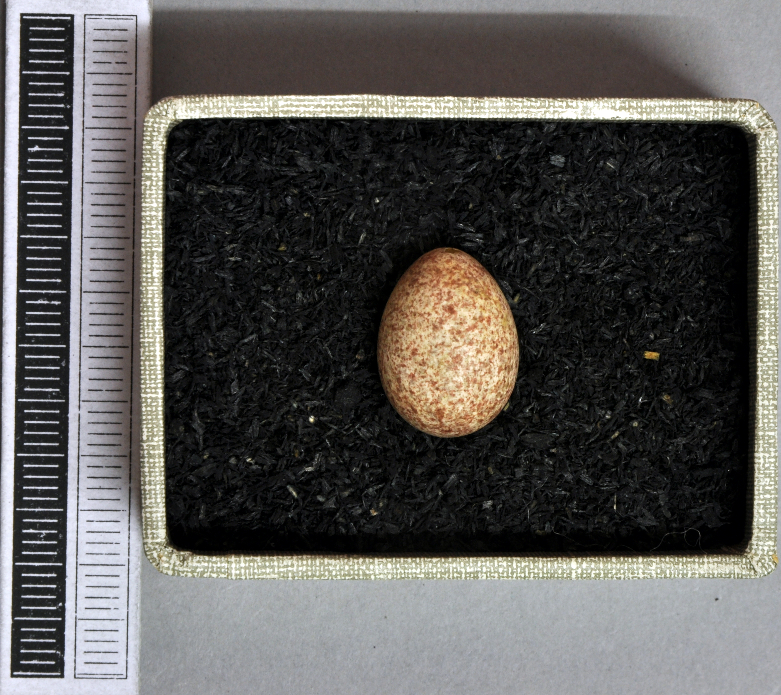 Common grasshopper warbler Locustella naevia , egg, Coll. Museum Wiesbaden